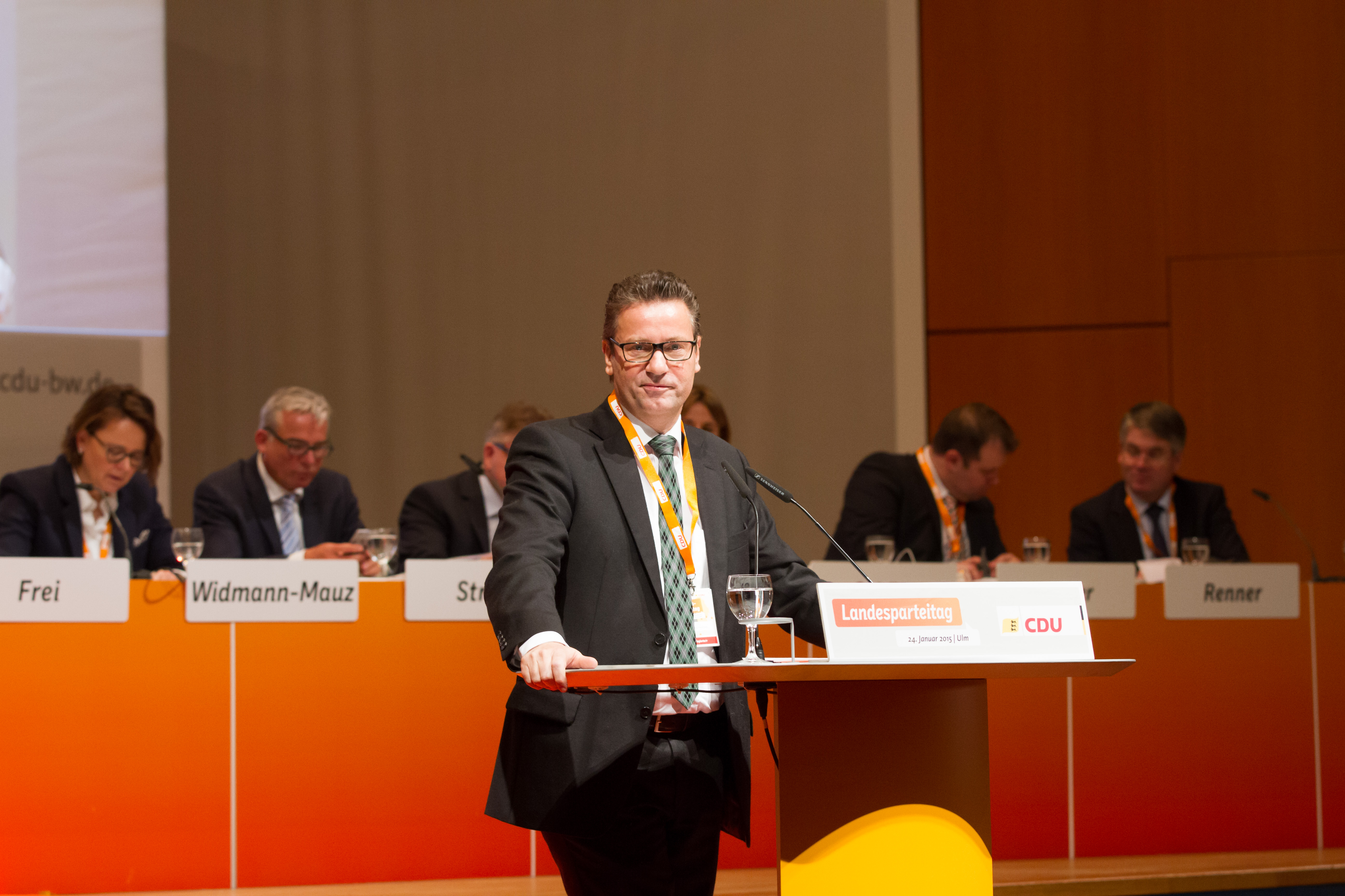 Series: 66th party convention of the CDU Baden-Württemberg in Ulm on January 24th, 2015. Image: Peter Hauk